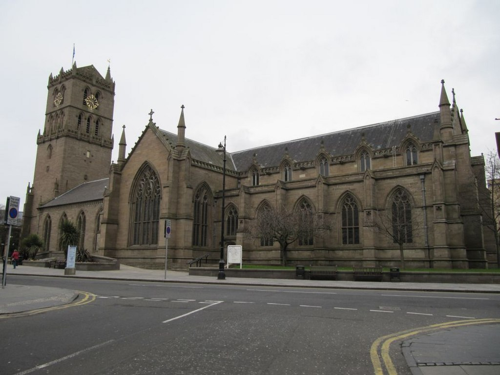 View from the south About as good as I can get a photo of the side of the Parish church.